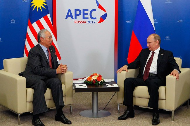 VLADIVOSTOK - With Malaysian Prime Minister Najib Tun Razak